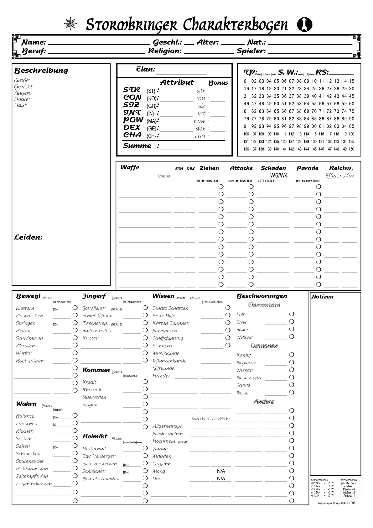 A custom character sheet (mainly in German language) for the Stormbringer role-playing game / (de:) Selbsterstellter Charakterbogen für das Rollenspiel Sturmbringer